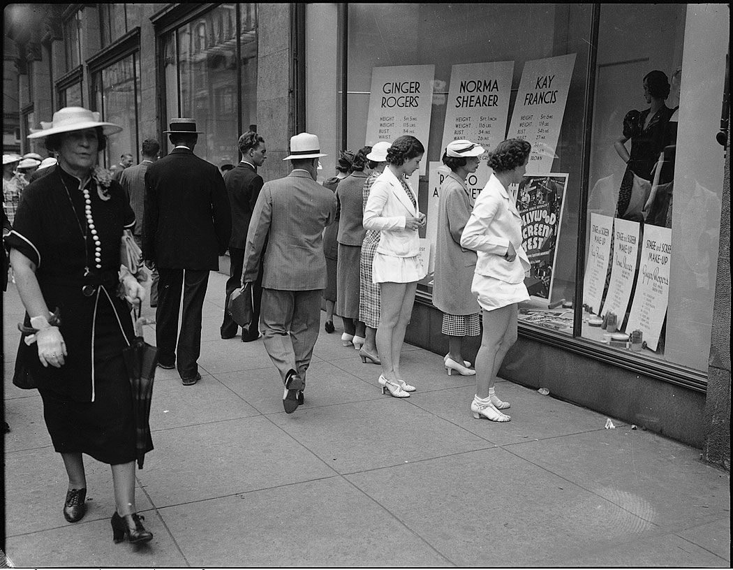 Window shopping at Simpsons department store. (Toronto, Canada)